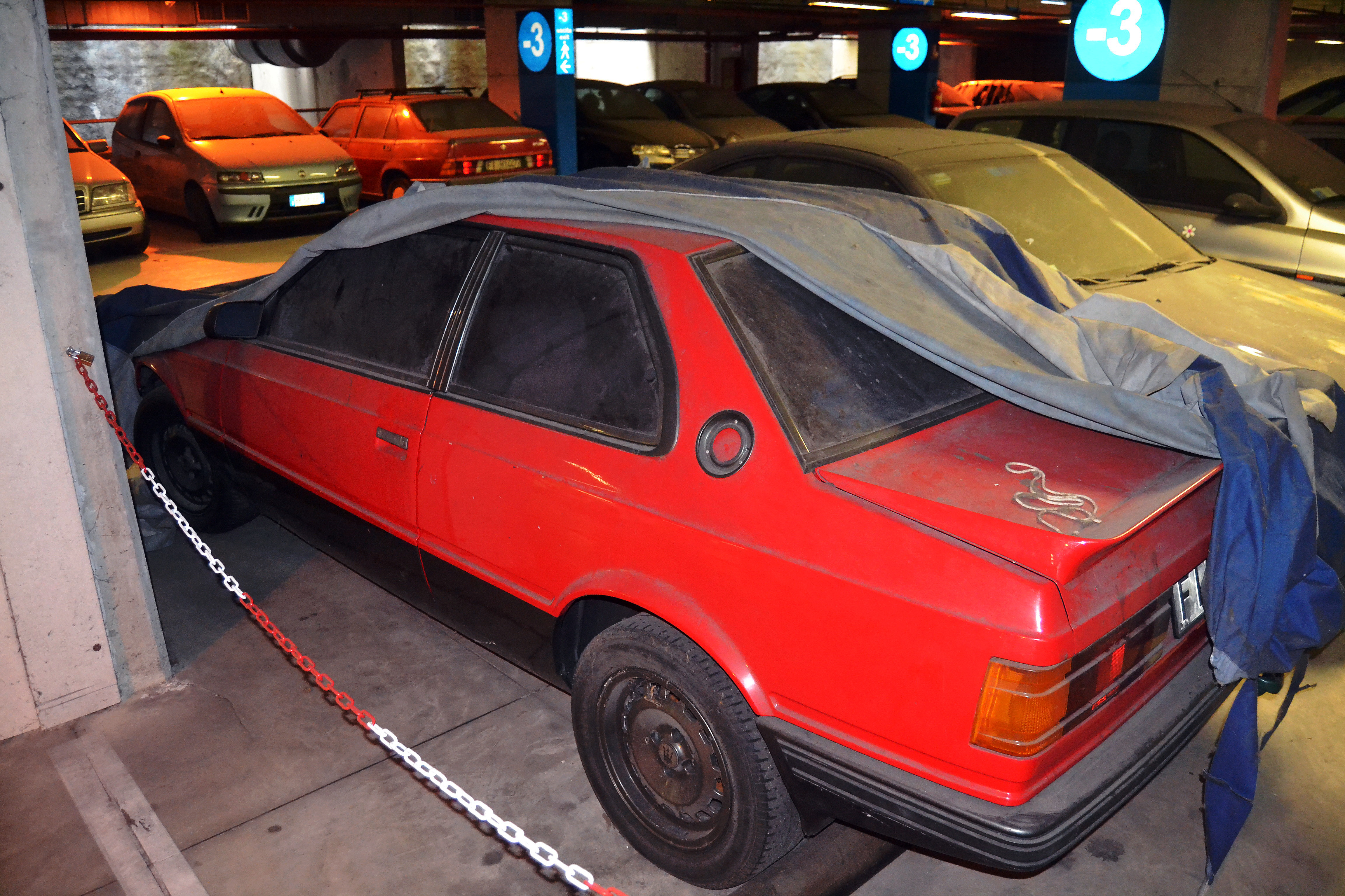 Abandonned Maserati Biturbo S in Firenze, Italy